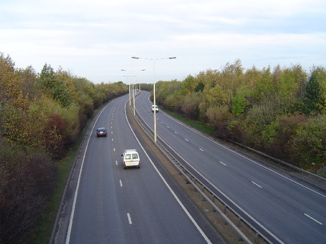 Frank Perkins Parkway (A1139), Peterborough. Looking north towards the Eye roundabout about 1 km away. Typical Parkway view.